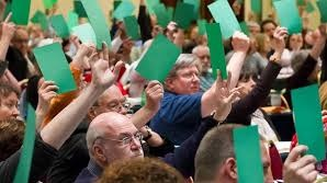 Metropolitan New York Synod Assembly